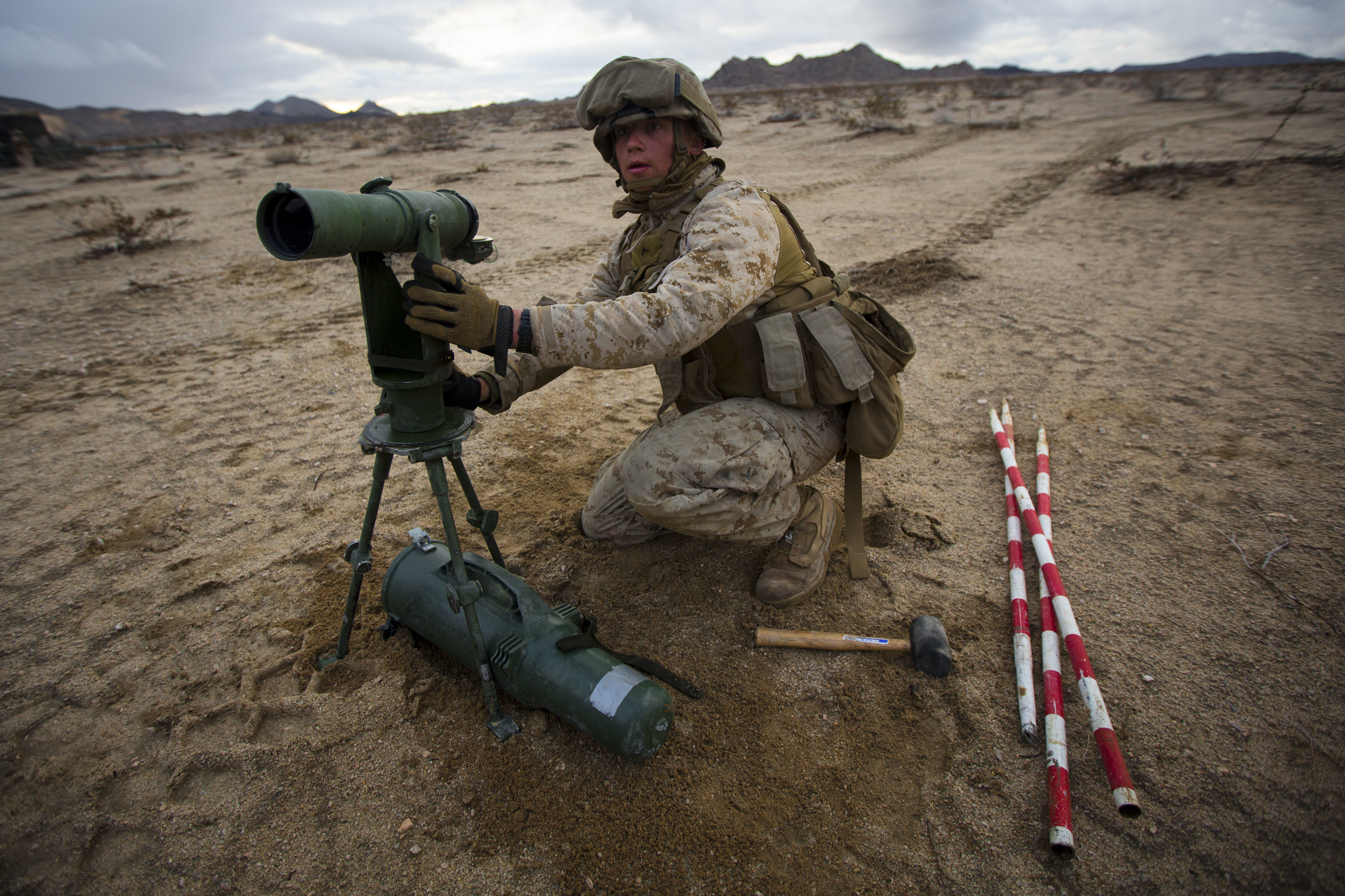 U.S. Marine Corps Pfc. Josh B. Stclair, the number three man with Alpha Battery, 1st Battalion, 12th Marines (1/12), currently assigned to 3/12, lays down the collimator during Integrated Training Exercise (ITX) 2-15 at Blacktop Training Area aboard Camp Wilson, Marine Corps Air Ground Combat Center Twentynine Palms, Calif., Jan. 30th, 2015. ITX 2-15, being executed by Special Purpose Marine Air-Ground Task Force 4 (SPMAGTF-4), is being conducted to enhance the integration and warfighting capability from all elements of the MAGTF. (U.S. Marine Corps photo by Lance Cpl. Aaron S. Patterson, MCBH Combat Camera/Released)